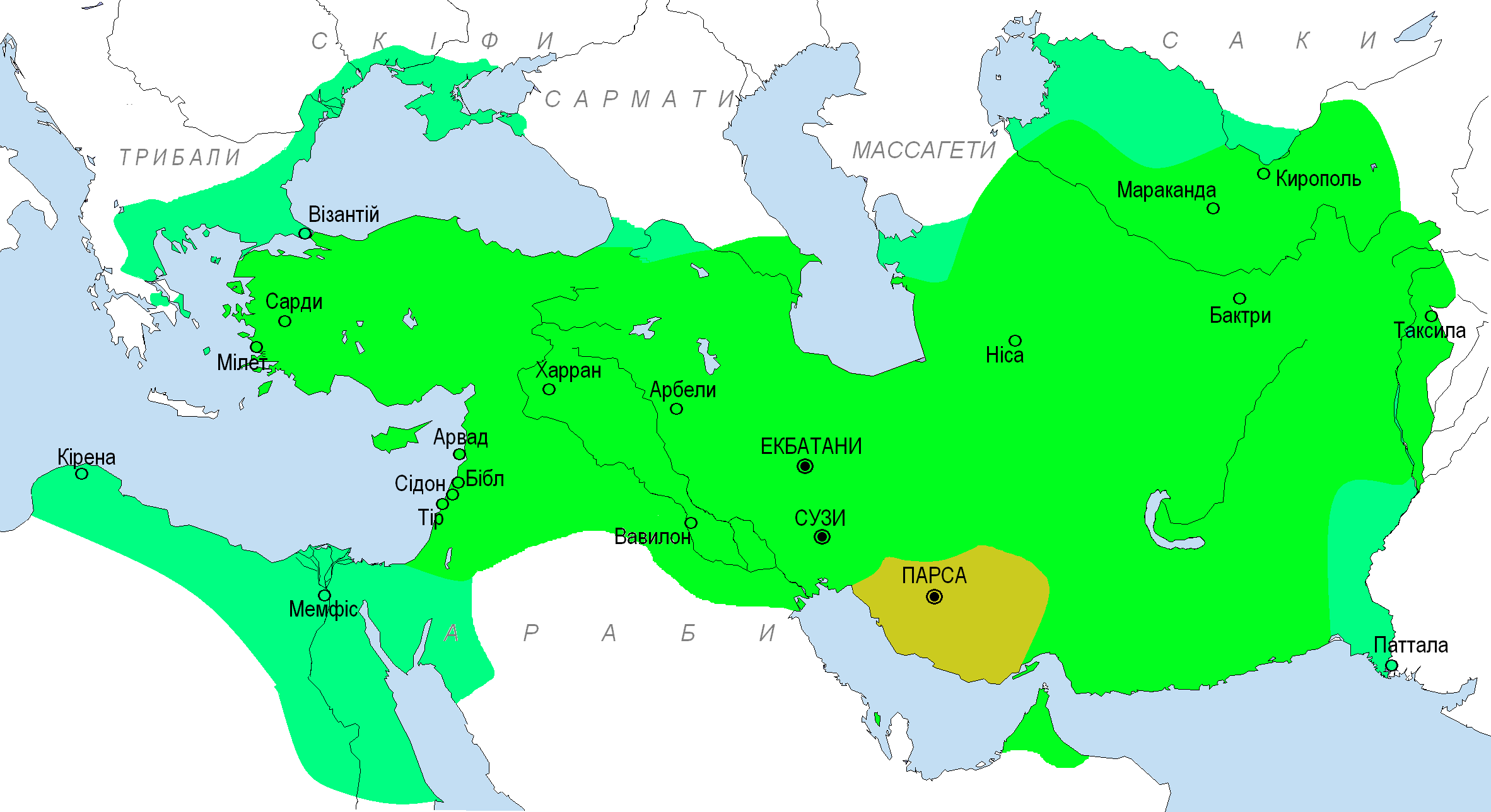 Map of Achaemenids' Empire (ukrainian)